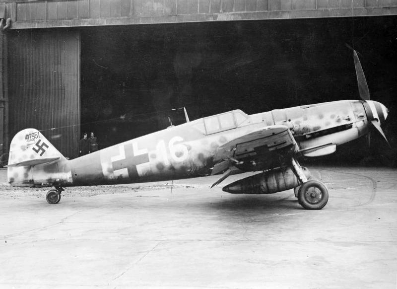 A captured German Messerschmitt Me 109G-6/U2 (Wk.Nr. 412951) 'White 16' of 3./JG 301, one of two aircraft which landed in error at RAF Manston (UK) on 21 July 1944. Both fighters were on a night 'Wilde Sau' operation against RAF bombers. The pilot of this aircraft was Leutnant Horst Prenzel, Staffelkäpitan of 3./301.